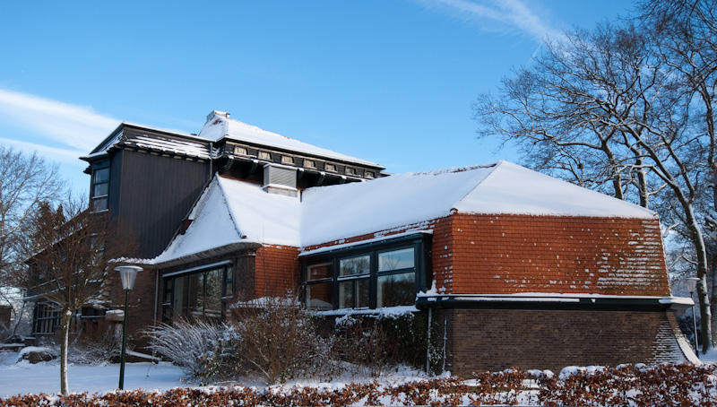 building designed by architect Blaauw